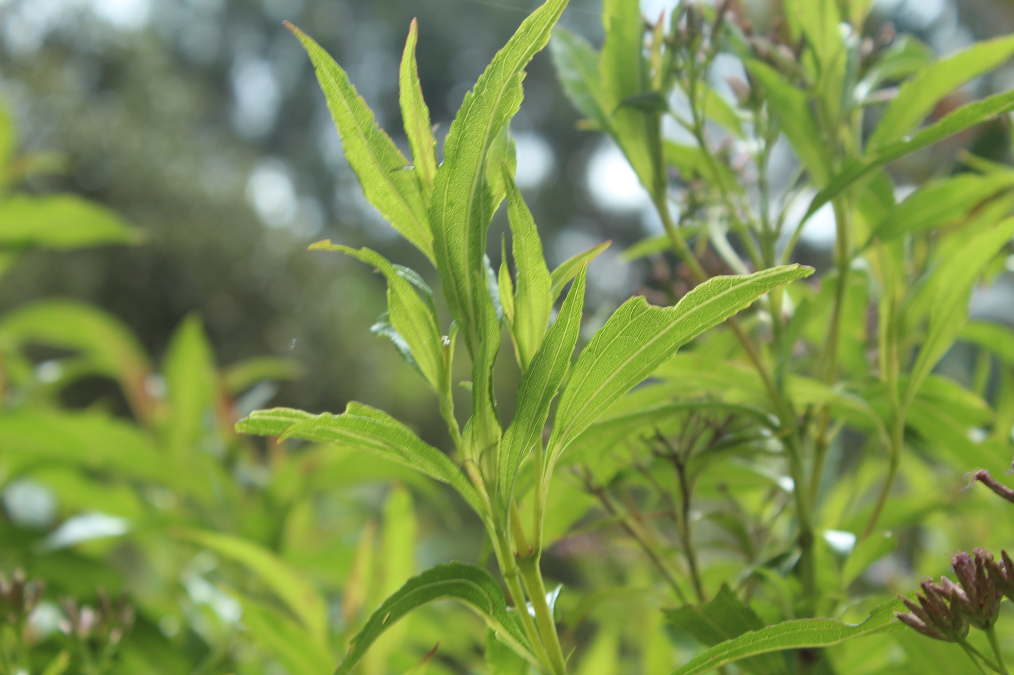 Chromolaena perglabra. Species of plant.